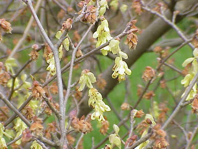 Species: Corylopsis spicata Family: Hamamelidaceae Image No. 2